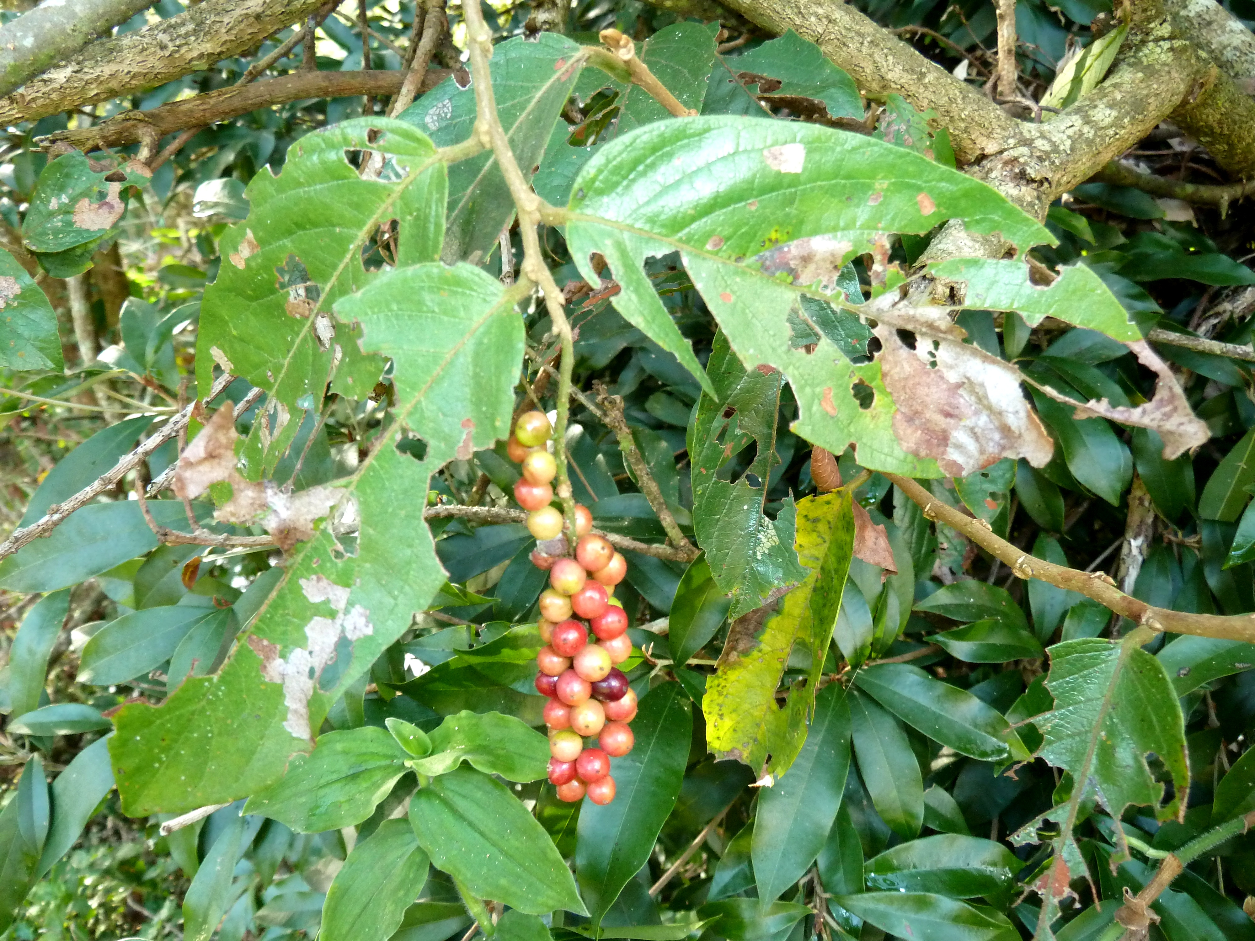 Fruit of a Tassel berry in the Kloof Falls picnic site in Krantzkloof Nature Reserve, KwaZulu-Natal